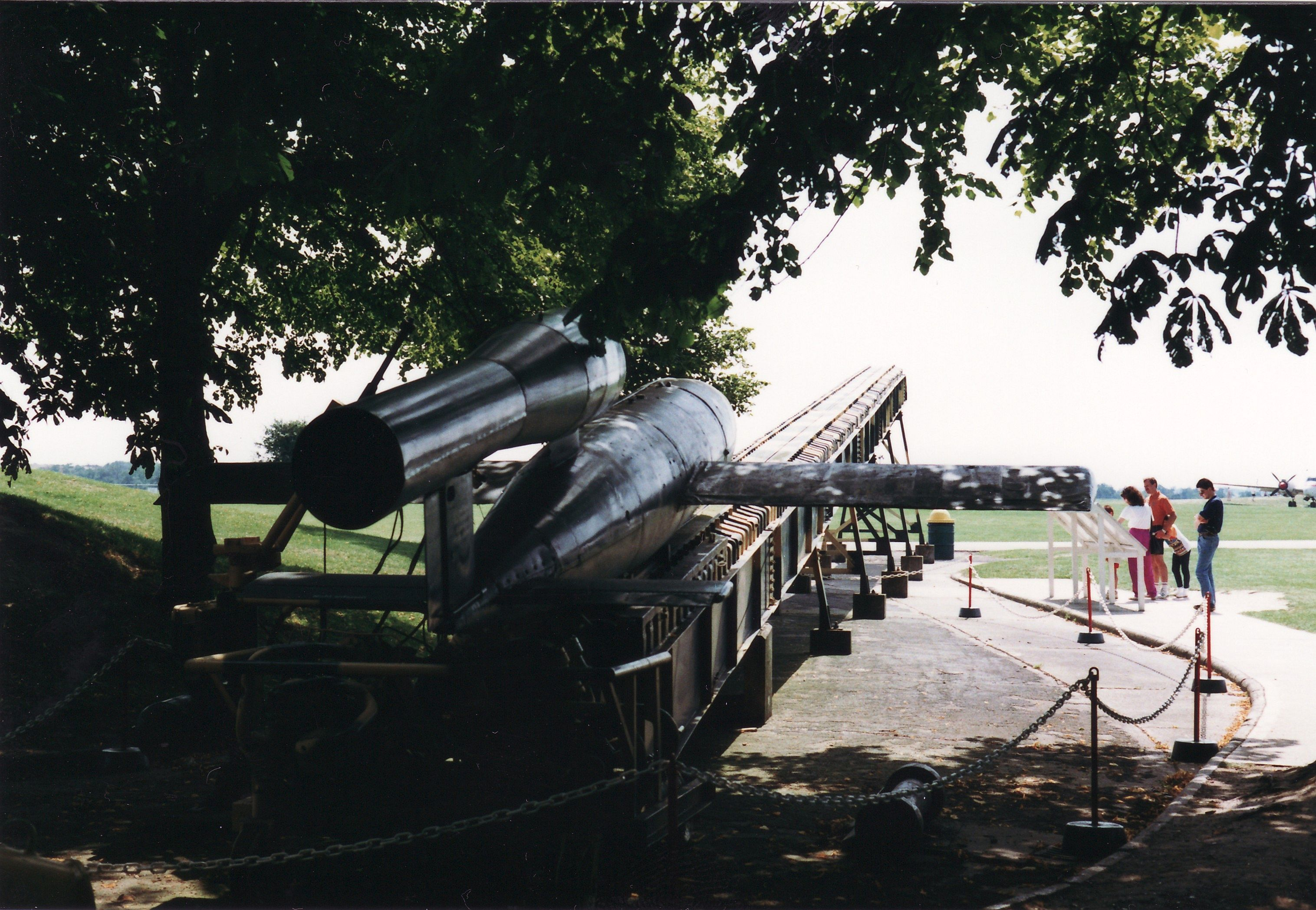 Fieseler Fi 103; selfmade; Author: Marco Mayer, Germany; Date: July 29th, 1992; Imperial War Museum Duxford